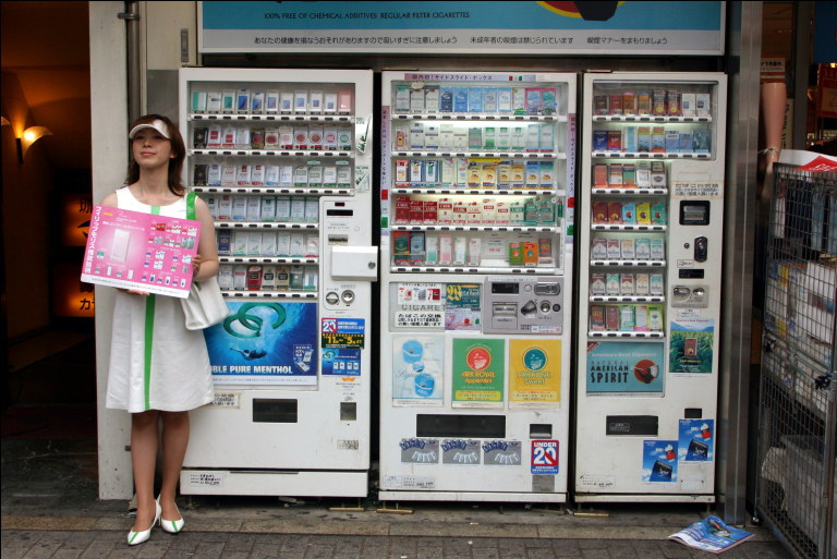 Cigarette vending machines in Tokyo, with promotion girl